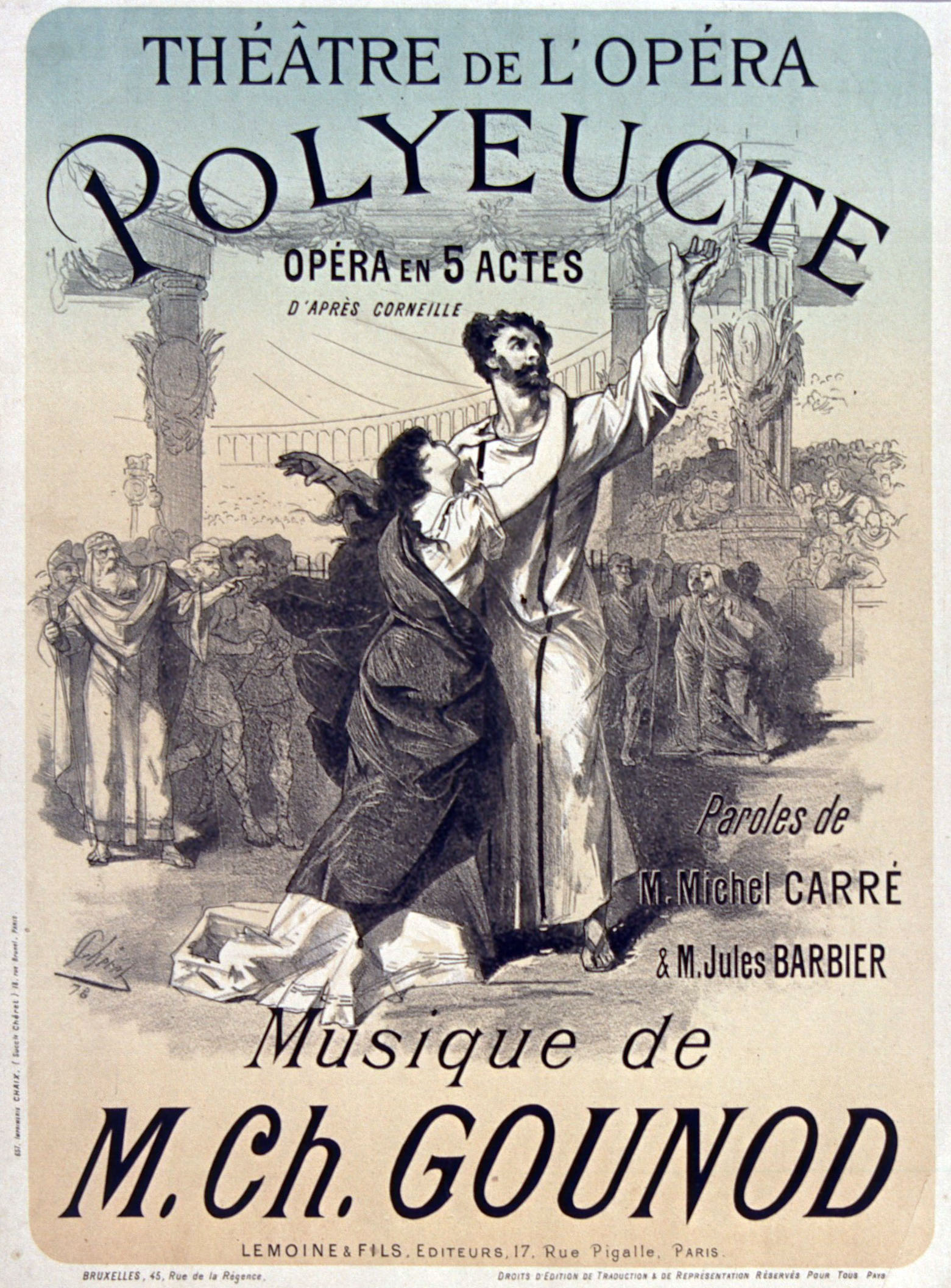 Poster for the premiere on 7 October 1878 of Charles Gounod's Polyeucte, performed by the Paris Opera at the Palais Garnier